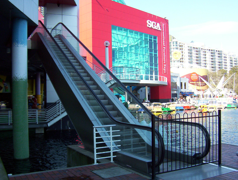 The entrance of the now-defunct Segaworld in Sydney, Australia